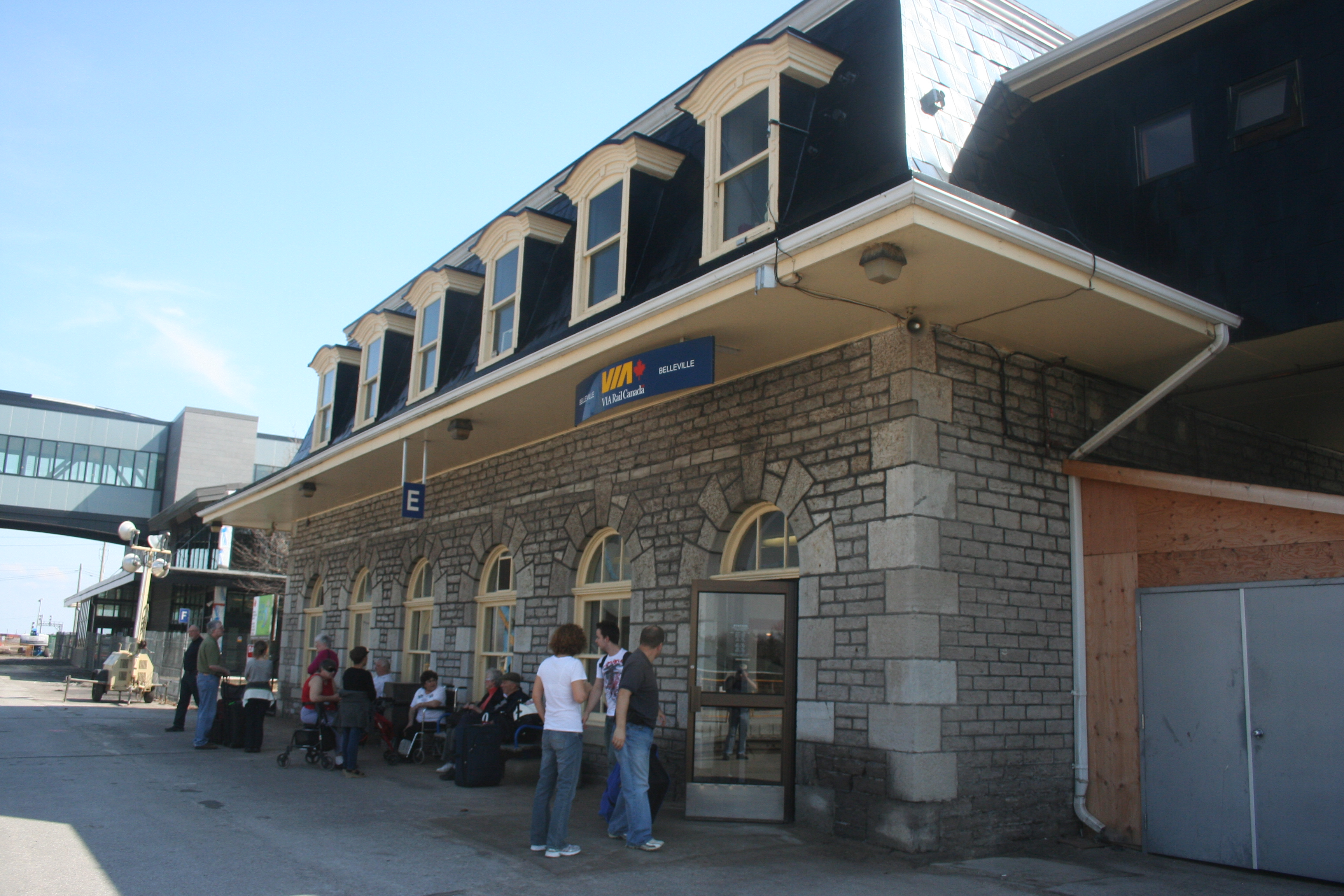 Thomas Brassey's architectural gem, the Belleville passenger train station opened in 1856 and served for 156 years making it the oldest rail passenger station in continuous service in Canada. But today is its last day. On March 20, 2012 at 6:14 a.m., VIA Rail trains will call at the new passenger station immediately to the east of the old one. It had to be. The current station is far too small for today's passenger traffic. Inside, it is standing room only in non air conditioned space as two trains will arrive and depart in opposite directions within 15 minutes. The old station is a National Historic Site of Canada and will be preserved but its new role has not been announced.